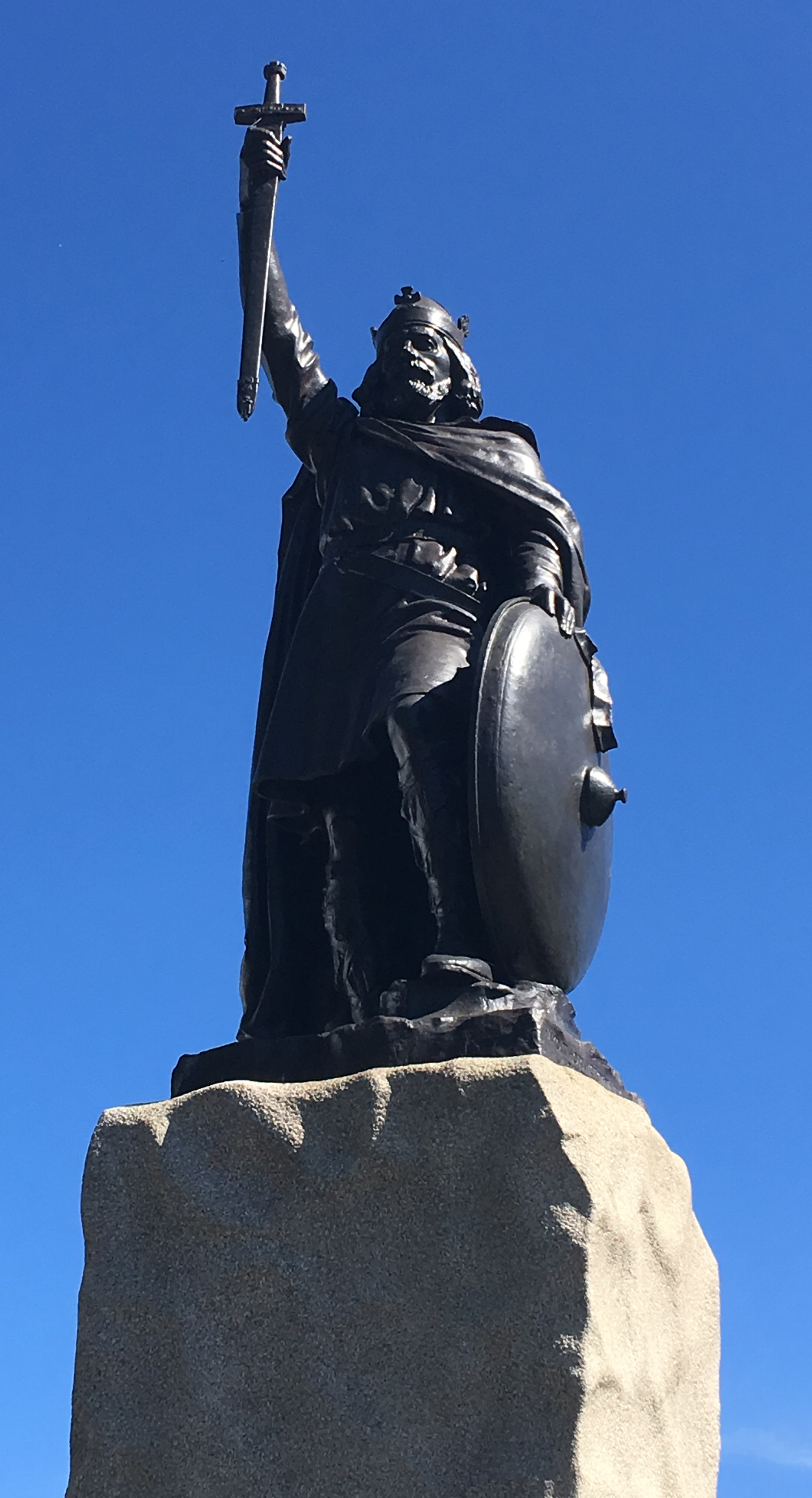 Ham Thornycroft's Bronze Statue of King Alfred watching over the Broadway in Winchester